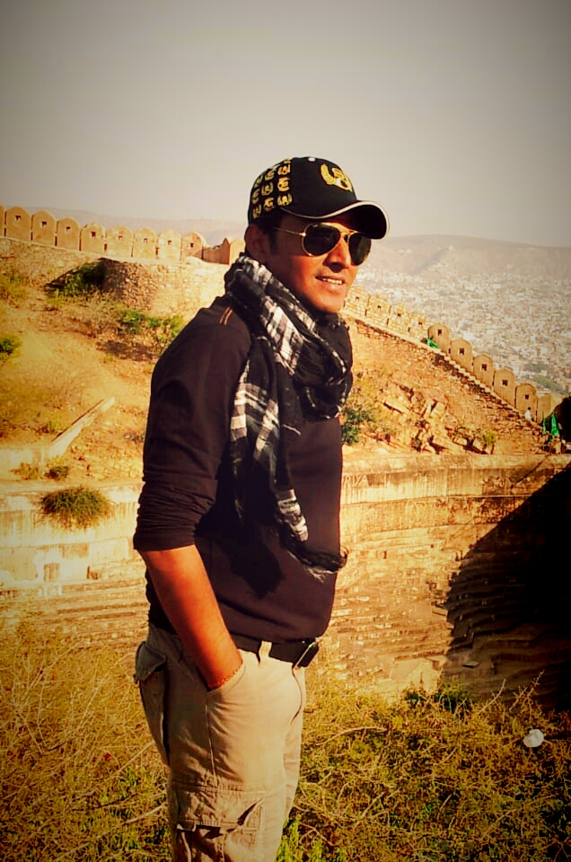 Santram Sir is looking for location for a scene where jodha and akbar meets